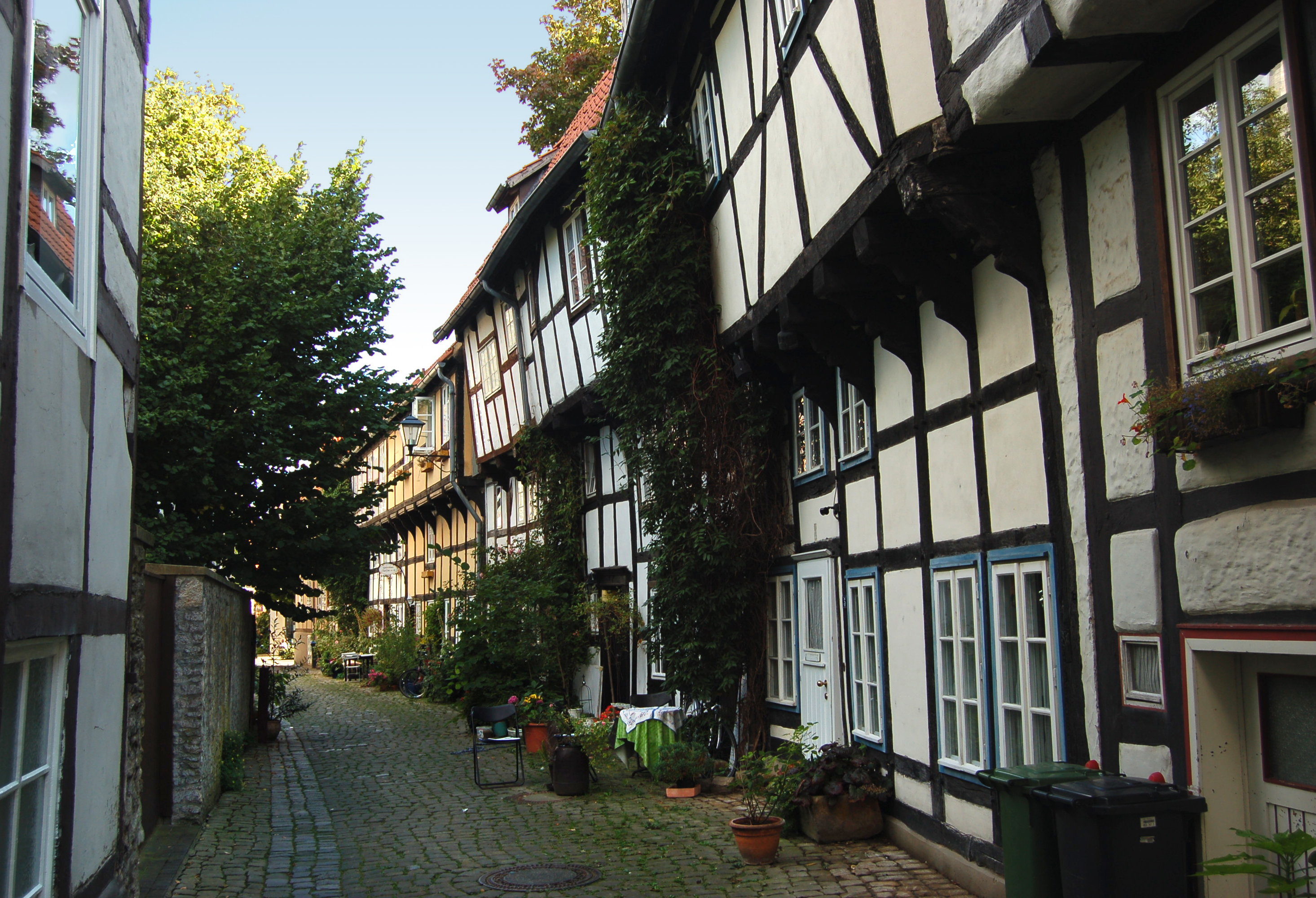 Timber framed houses in Adolf Street in Detmold, Germany